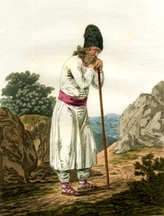 Peasant from Bukovyna (Chernivtsi region of western Ukraine). Old antique / prewar postcard / photo, early 20th cen.